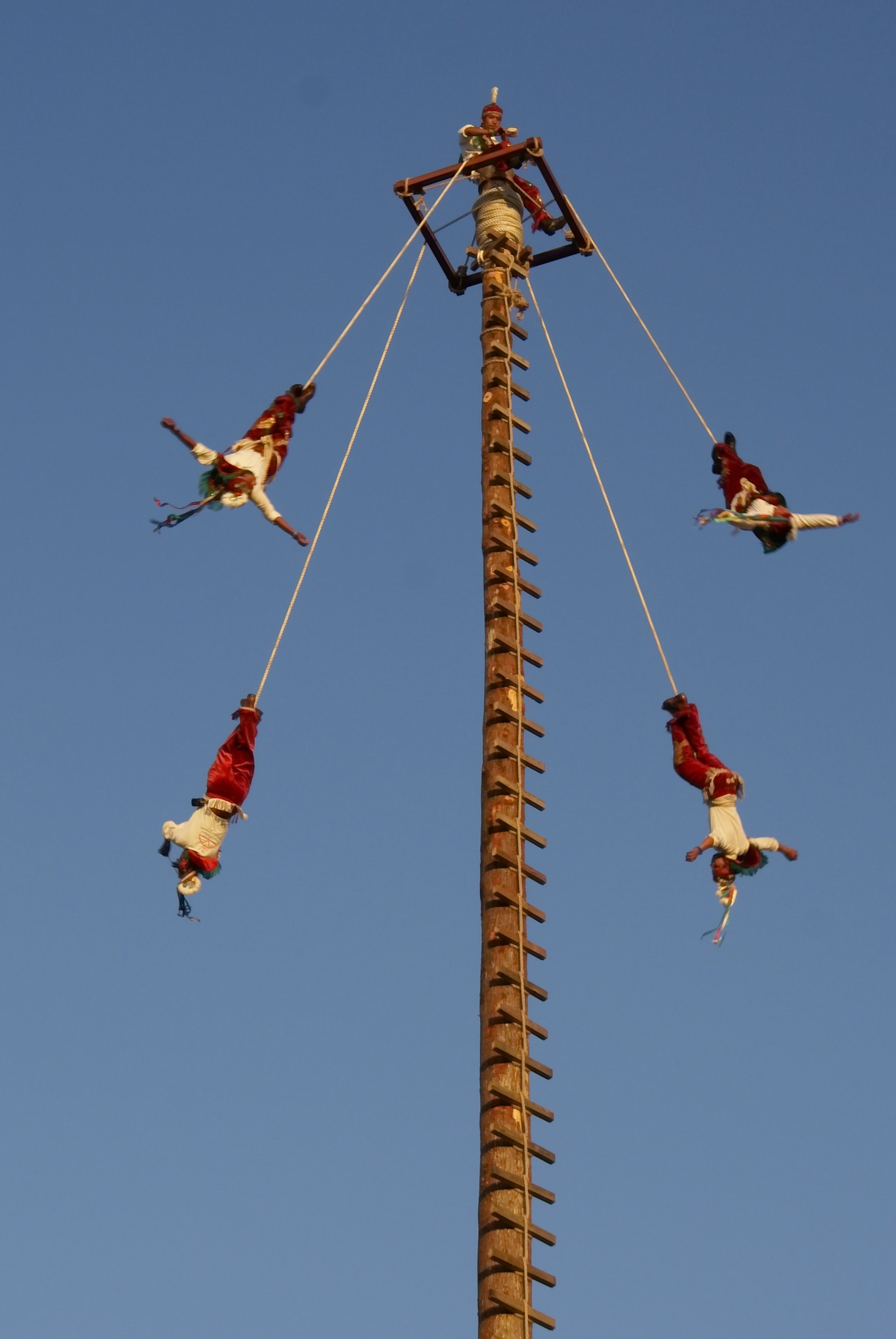 Los Voladores Aztecas performing on Réunion island